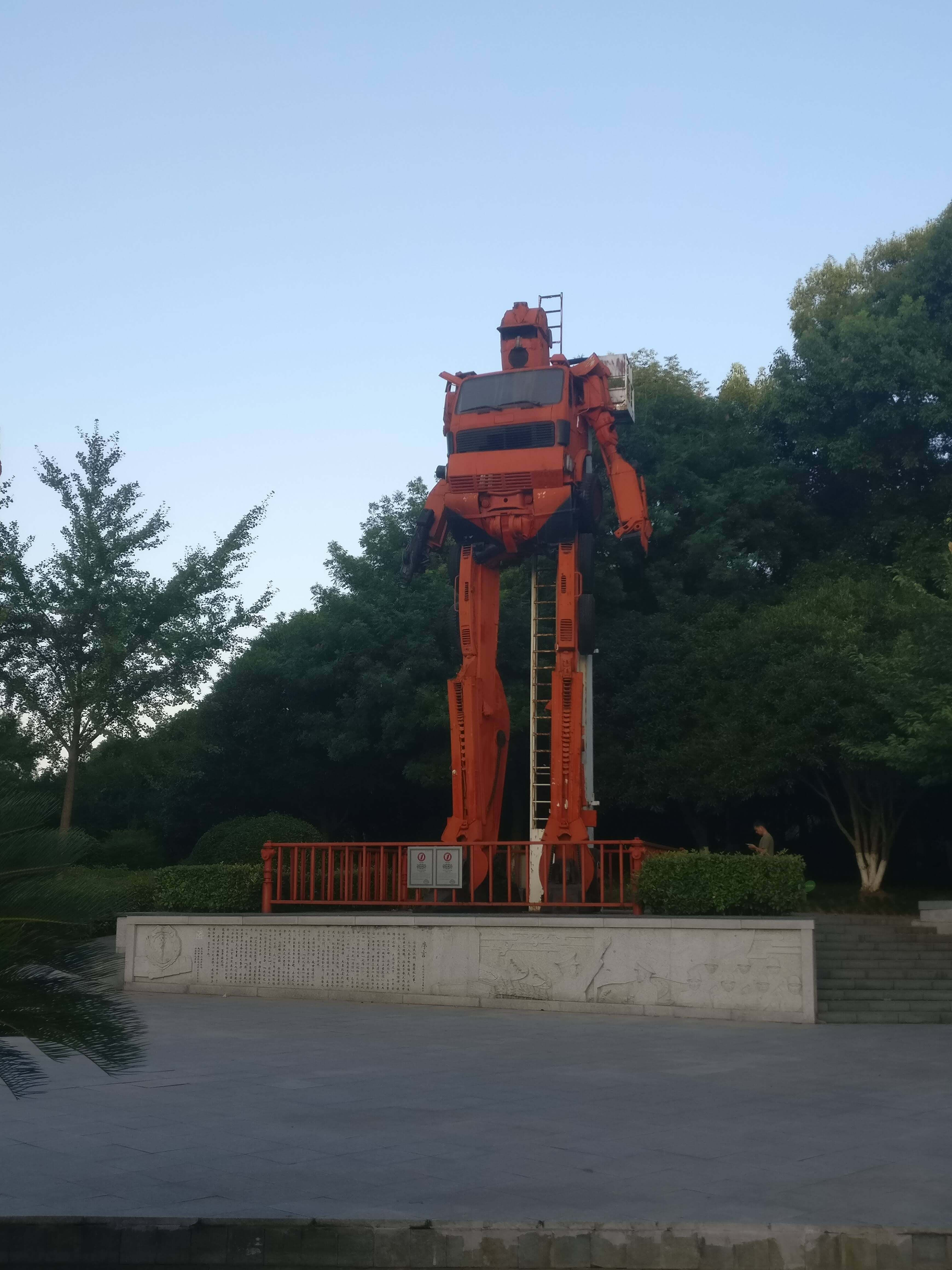 transformers in Hangzhou firefighting theme park. 中文（中国大陆）: 杭州消防主题公园里的消防金刚。